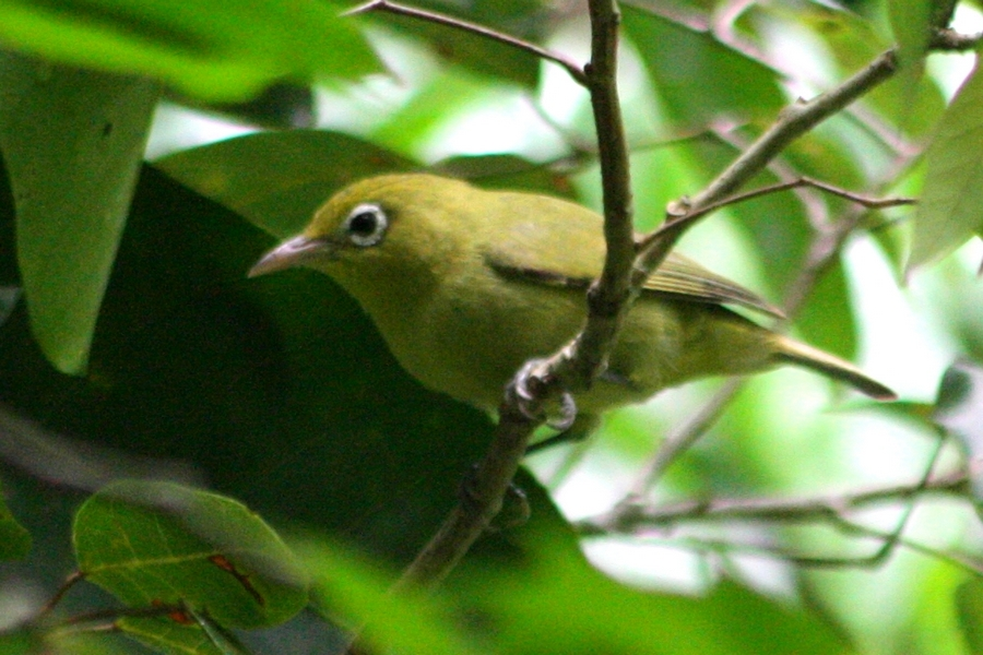 A Louisiade white-eye on Duchess Island, D'Entrecasteaux Islands, Papua New-Guinea